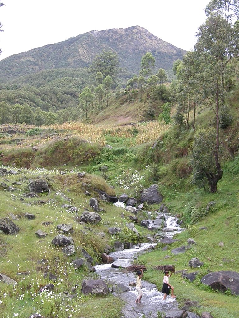 Life in the clouds. Firewood collection and stream crossing with Mt Ramelau in the background, Hatu Builico valley, Ainaro, Timor-Leste